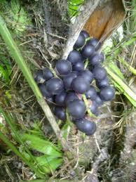 licença livre